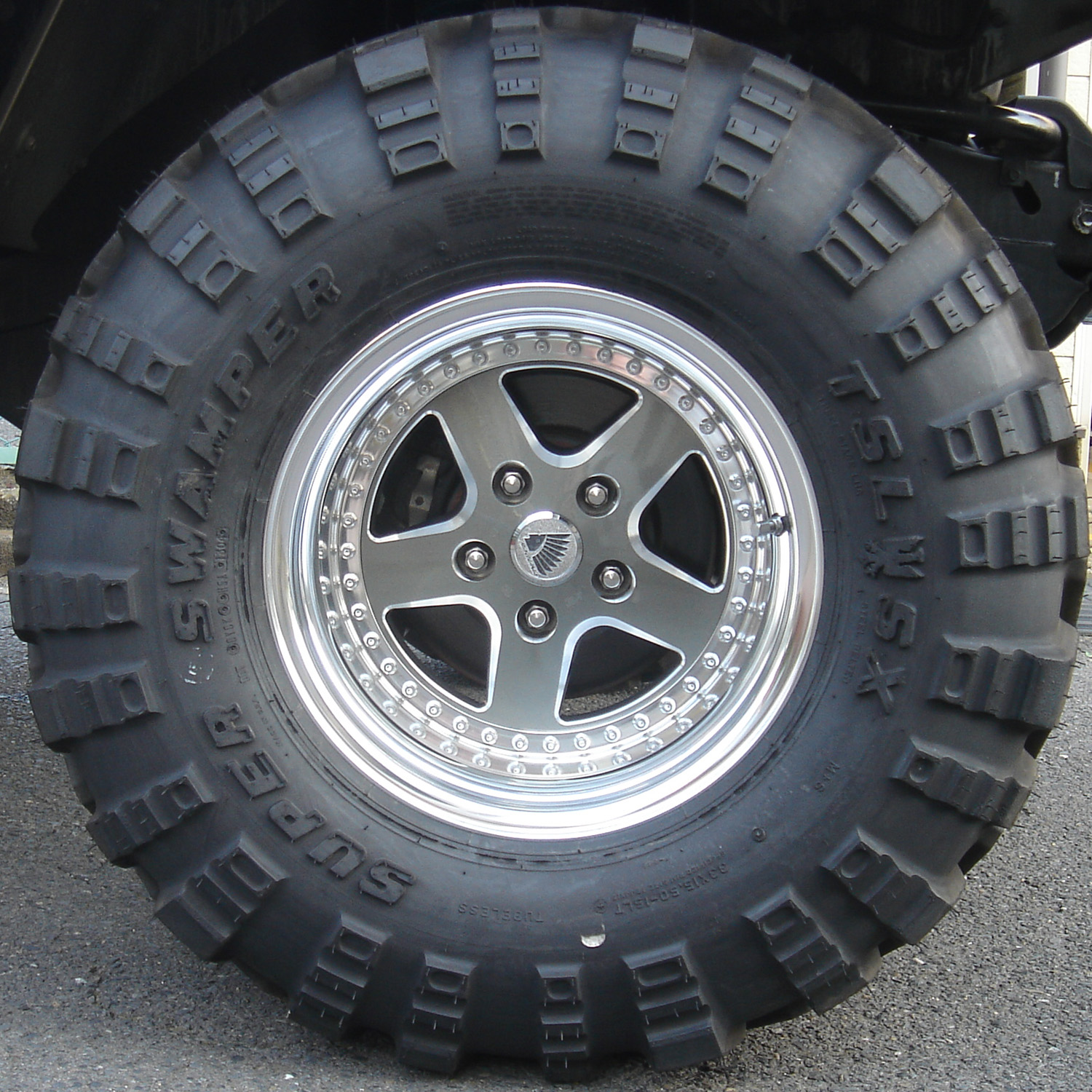 Large treaded tire, named as a "super swamper"